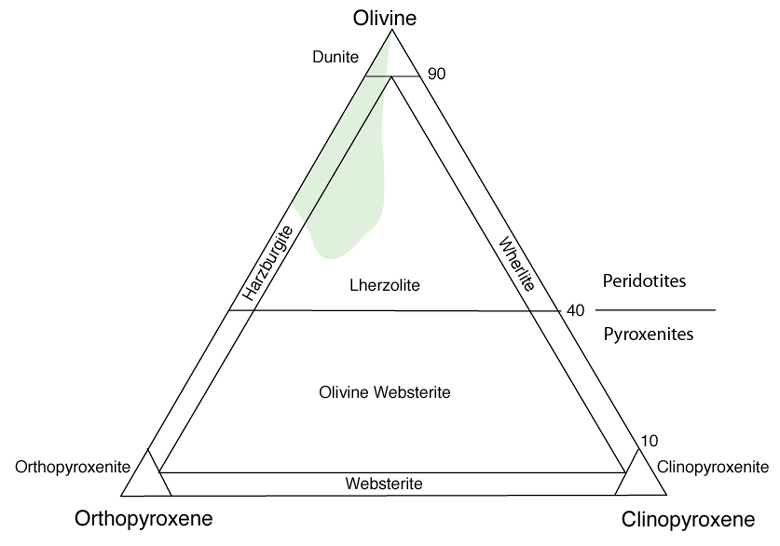 Classification diagram for peridotite and pyroxenite, and with a pale green area approximately enclosing the most common compositions for upper mantle peridotite. Wherlite is mis-spelled. Wehrlite is right.